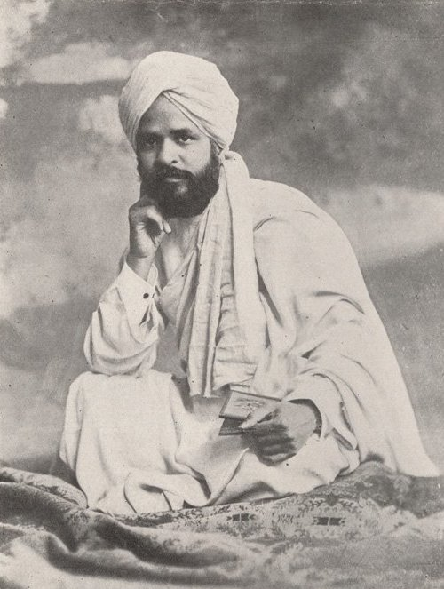 This flyer advertises a lecture being given on Friday, July 8th, 1910 in Kilbourn, WI by Sakharam Ganesh Pandit. He is described as a "High Caste Brahmin Teacher and Lecturer from India." A picture of Pandit takes up most of the center of the image, showing him sitting in robes and a turban, looking pensive.